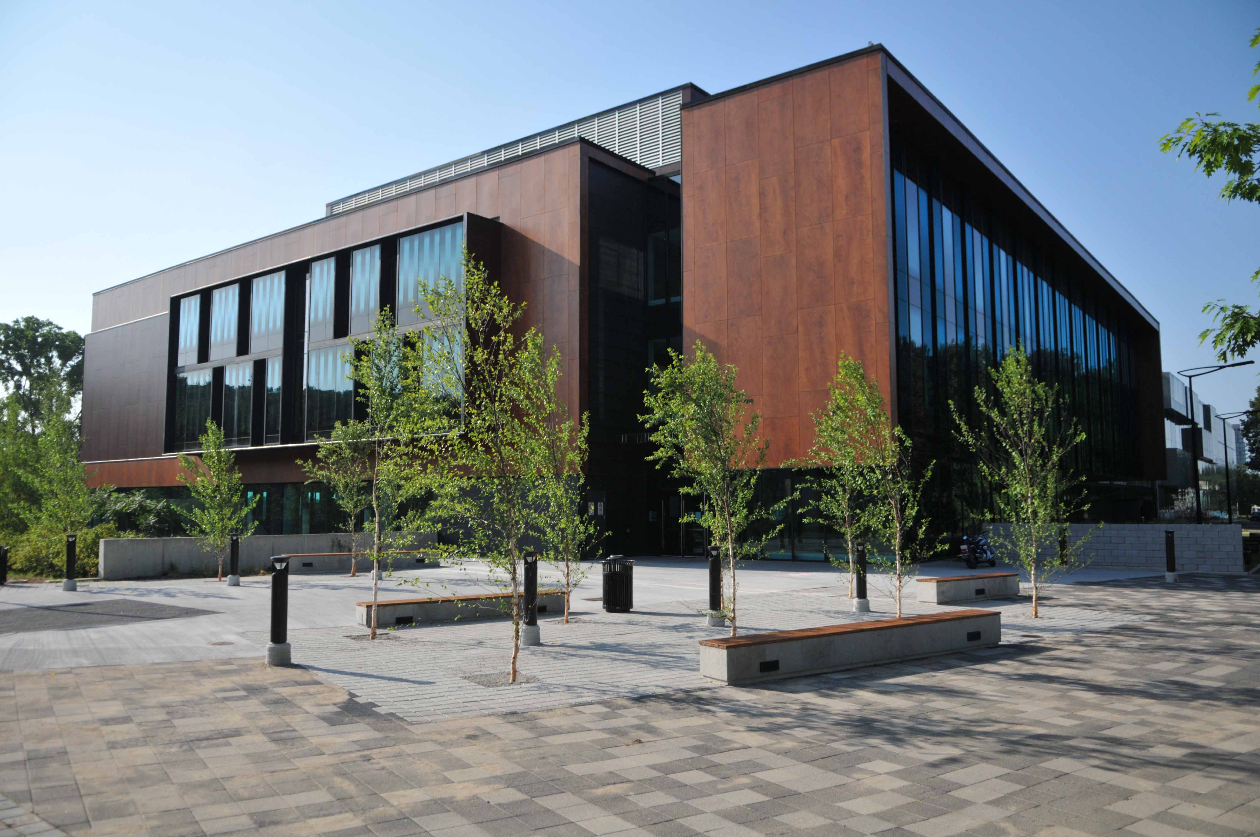 Northwest view of the Hazel McCallion Academic Learning Centre at the University of Toronto Mississauga